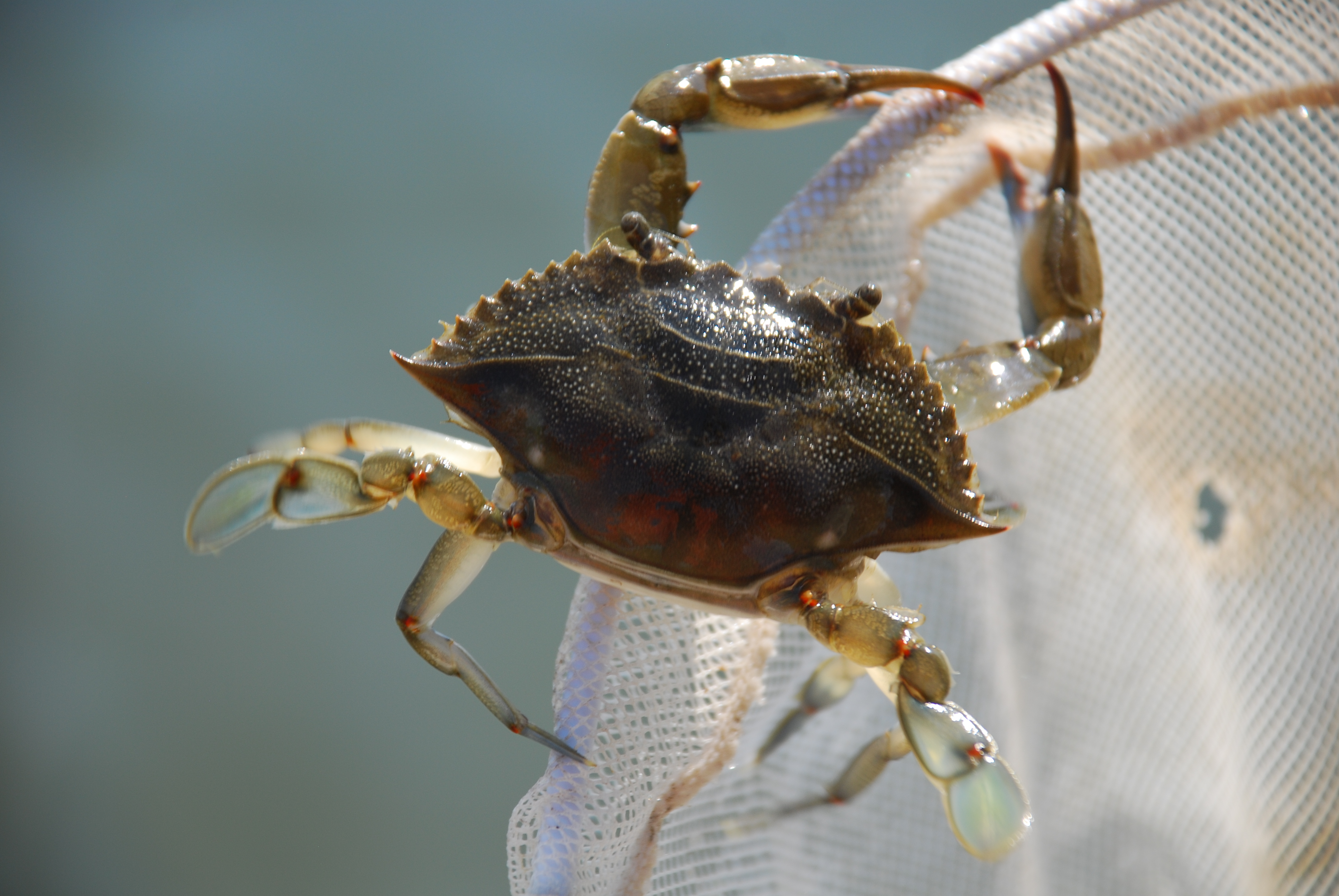 Animals of Core Banks, North Carolina:Atlantic Blue Crab (Callinectes sapidus) caught at the long Point Dock